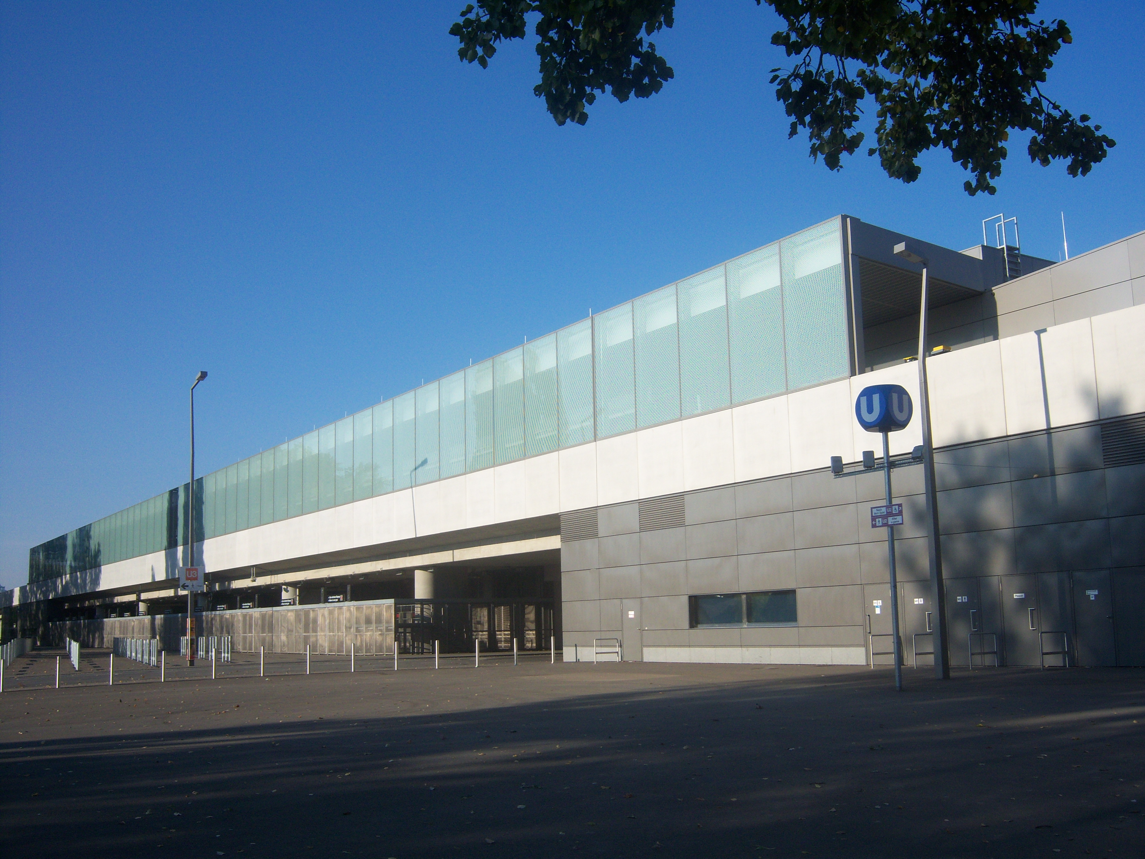 U2-Station Stadion